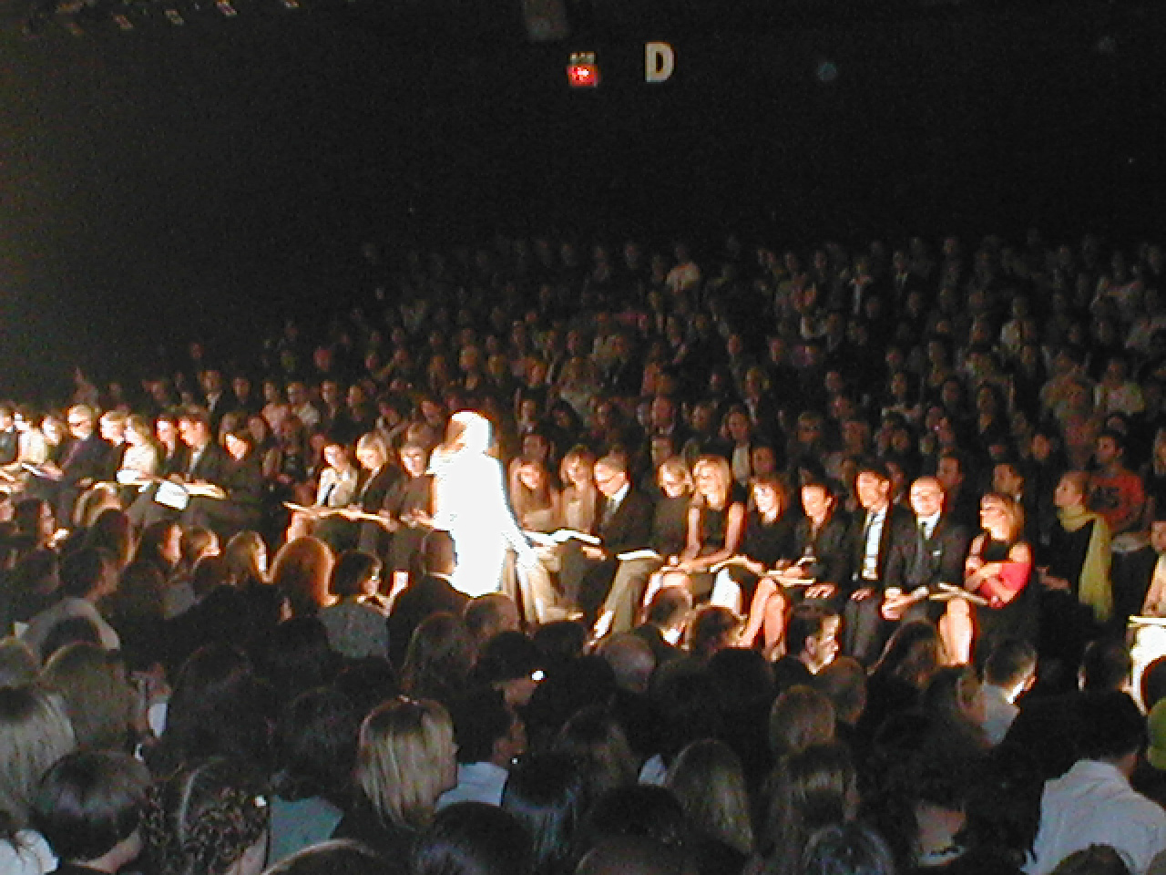 Catwalk at Michael Kors by David Shankbone, New York City